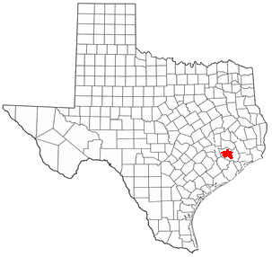 HoustoninTexas.PNG with transparency. This image was created by WhisperToMe. Transparency was added by Some Person Category:Houston, Texas